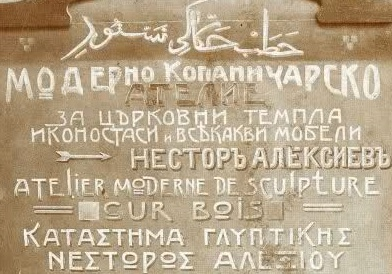 Nestor Alexiev Ad